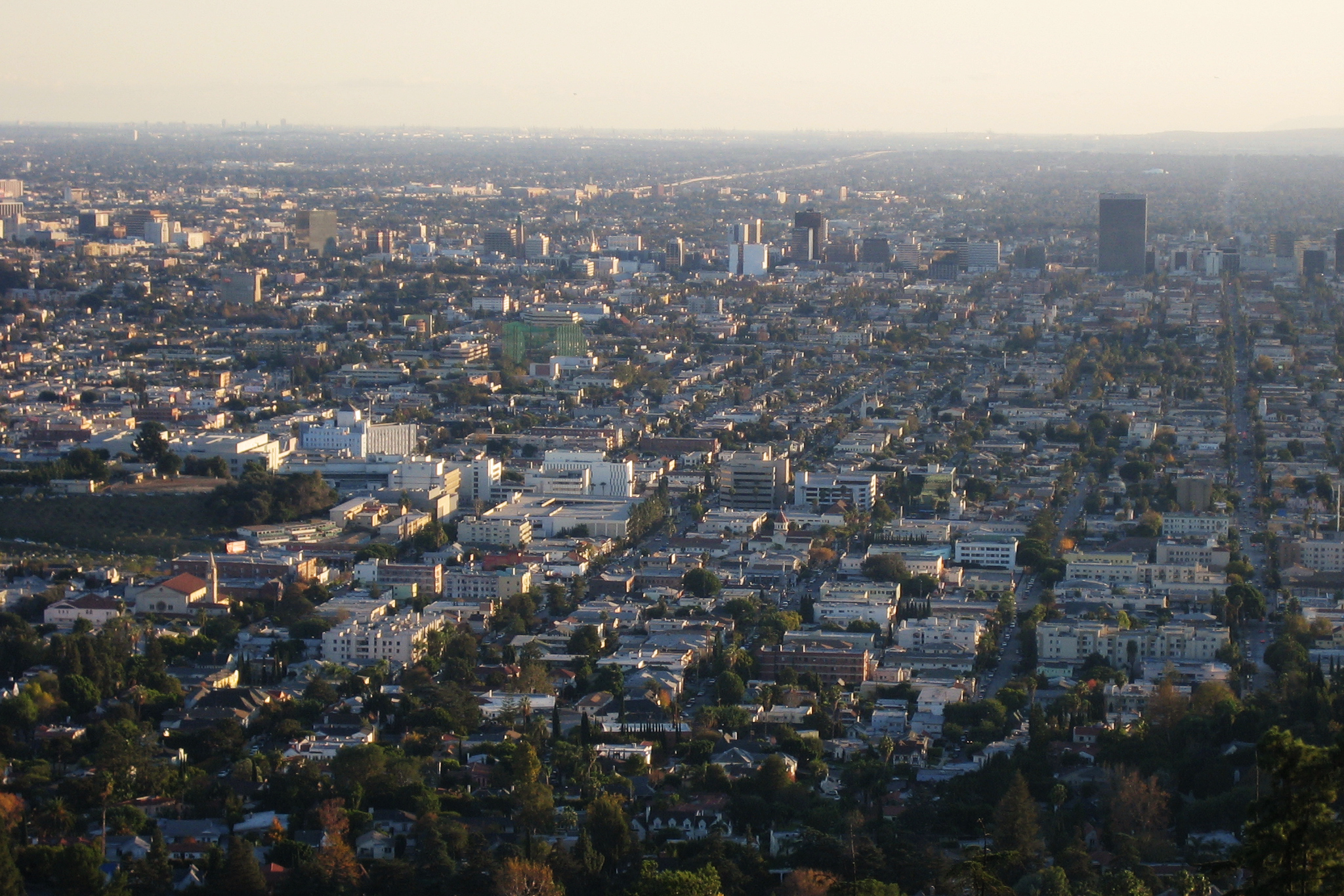 View of the Los Angeles Basin in California from the Griffith Observatory. The Little Armenia neighborhood can be found in the center. Part of Barnsdall Art Gallery can be seen in the far-left middle section; the St. Garabed Armenian Church is in the center; the loading cranes of the Los Angeles-Long Beach seaport can be seen in the distance in the background, as well as Highway 110 that runs from Downtown L.A. to Long Beach in the upper-middle portion of the image.